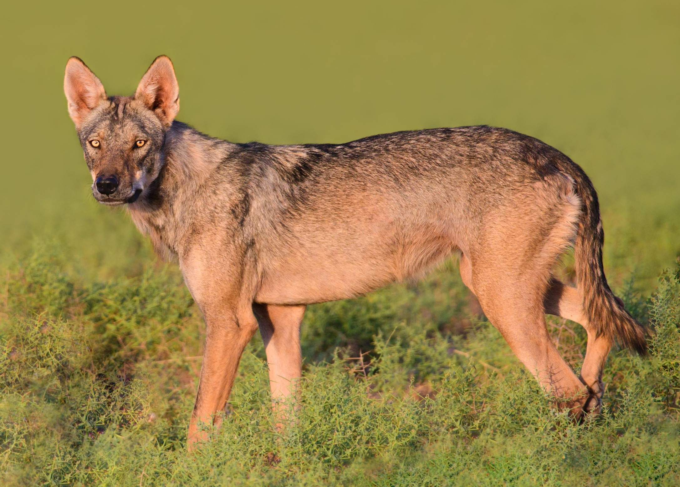 Wolfdog in Shirahmad wildlife refuge of Sabzevar, Iran